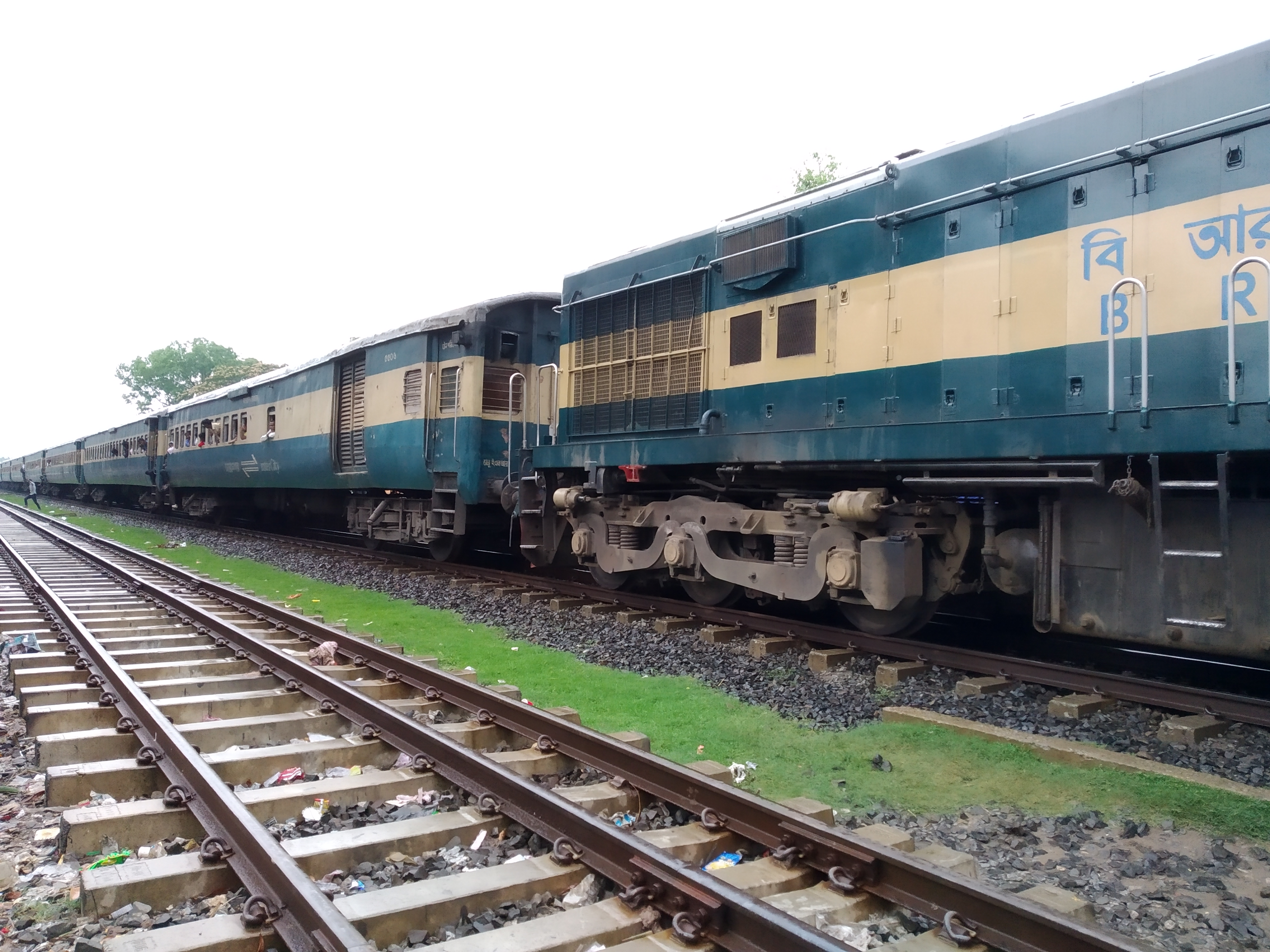 Bd Train Engine at birampur station